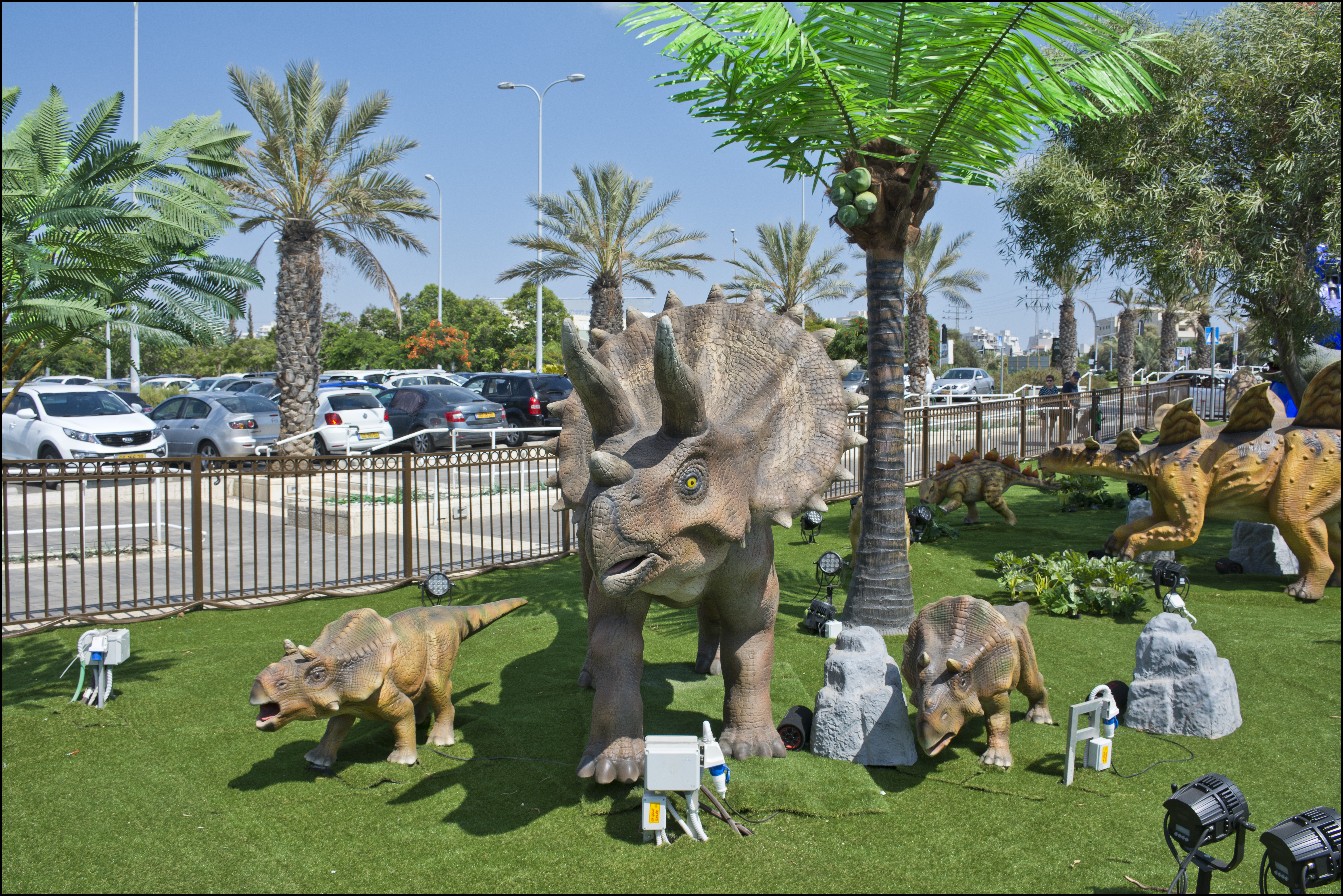 Cinema City's Dinosaur Park, Rishon LeZion, Israel 2019